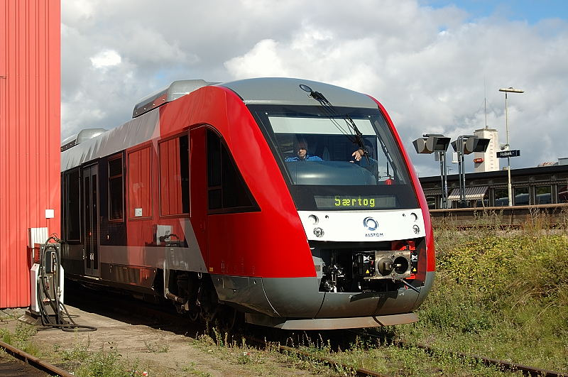 Vestsjællands Lokalbaner Lint DMU at the workshop in Holbæk